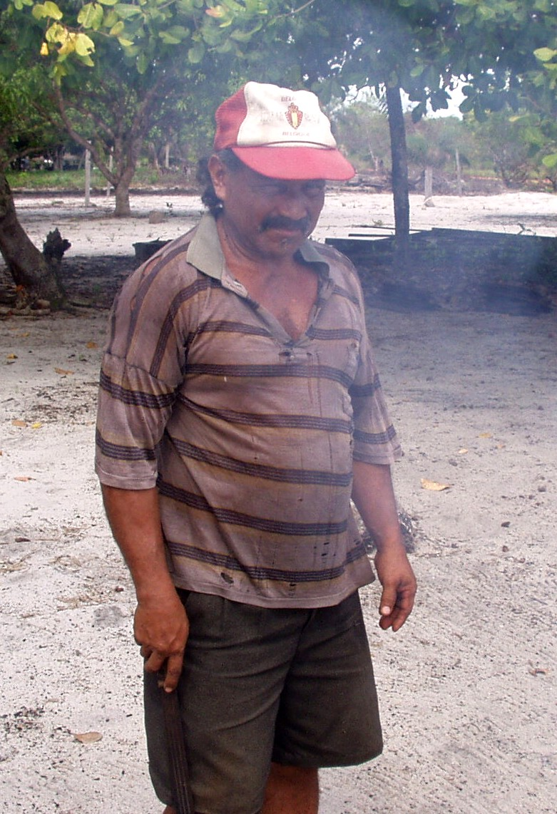 Leo Toenae, Amerindian storyteller froom Suriname